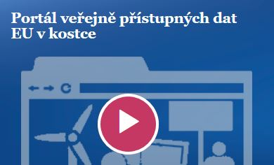 Screenshot from Open Data Portal